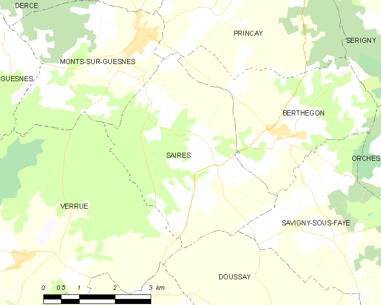 Map of French municipality Saires